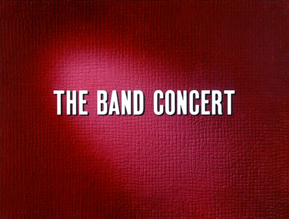 Title card from Disney short The Band Concert (1935)